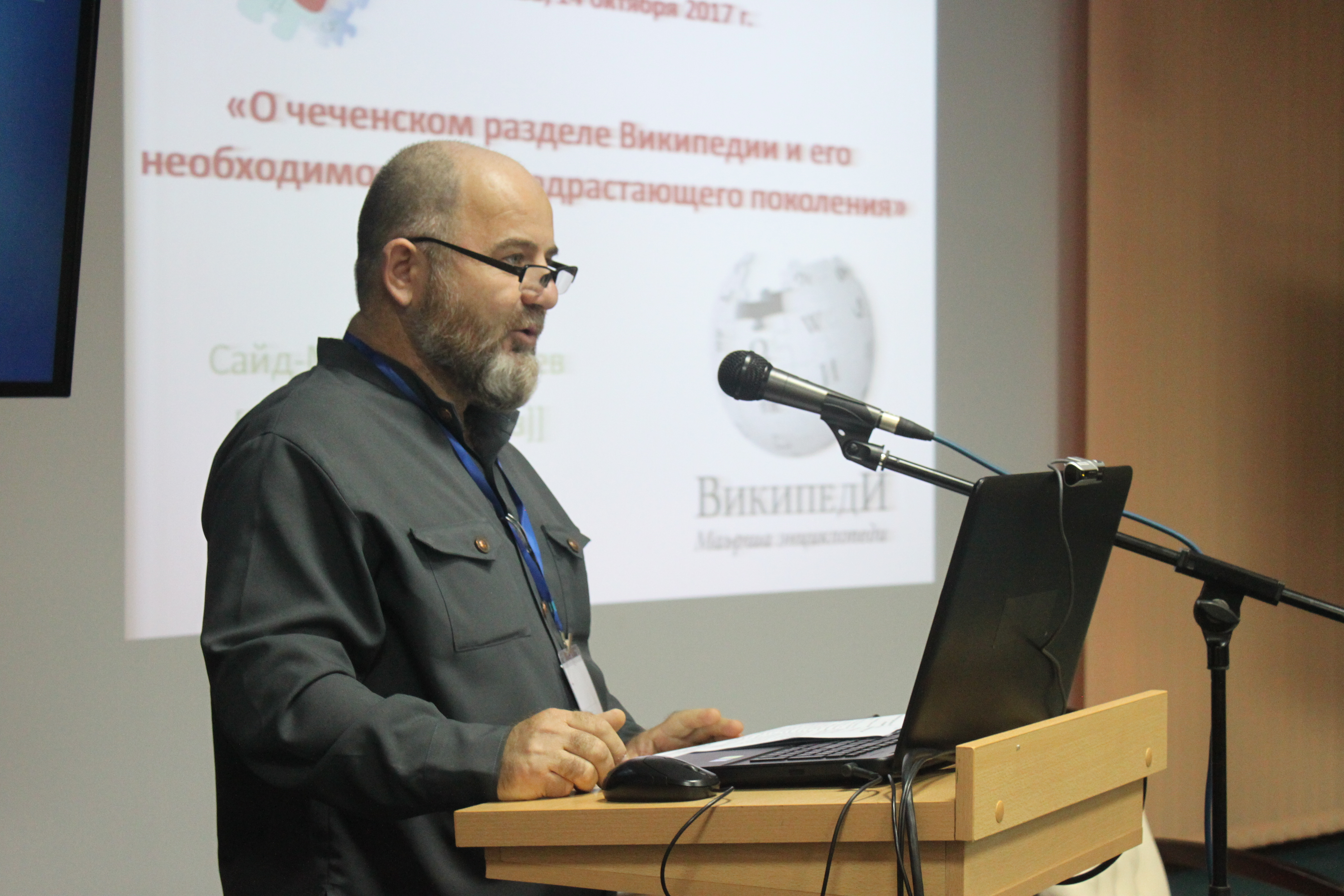 Photos of Moscow Wiki-Conference 2017 (second day). Said-Magomed Kadiev speaks about the Chechen Wikipedia.